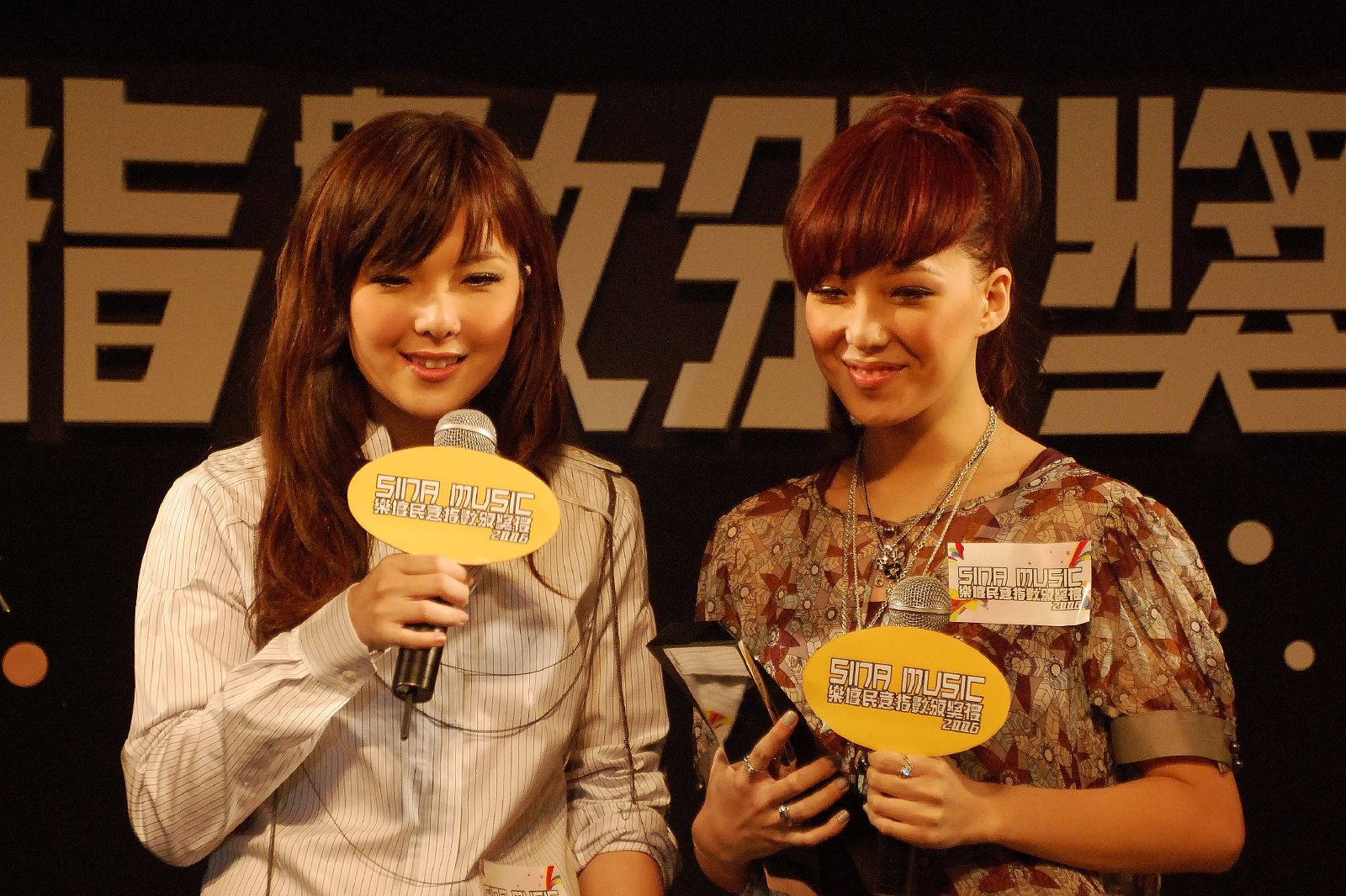 Janice Vidal and Jill Vidal at SINA Music樂壇民意指數頒獎禮 2006 (hosted on 29 January 2007)